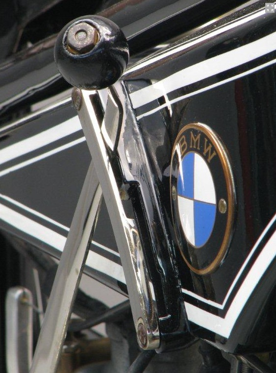 BMW R32 1925 gearshift and logo